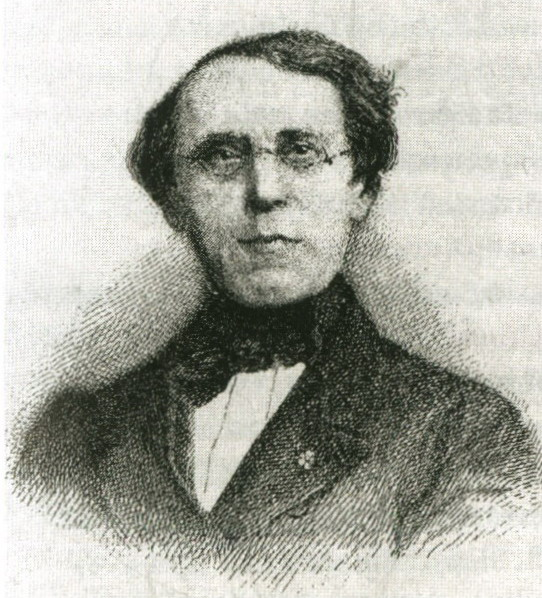 Portrait of the lawyer and Francophone writer André van Hasselt (1805-1874) by an unknown draughtsman.